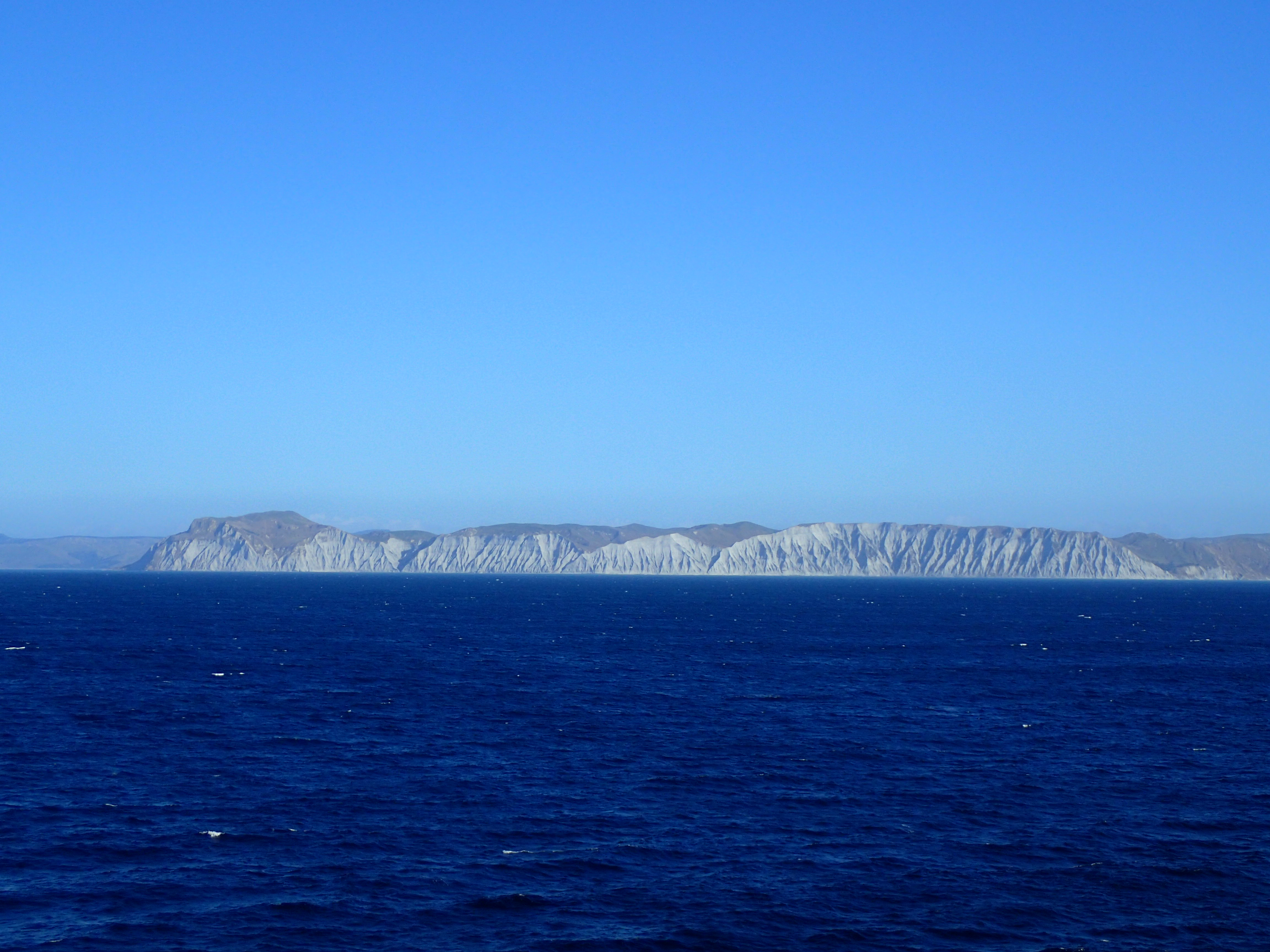 Cape Turnagain Wairarapa New Zealand / Aotearoa - From the North-East